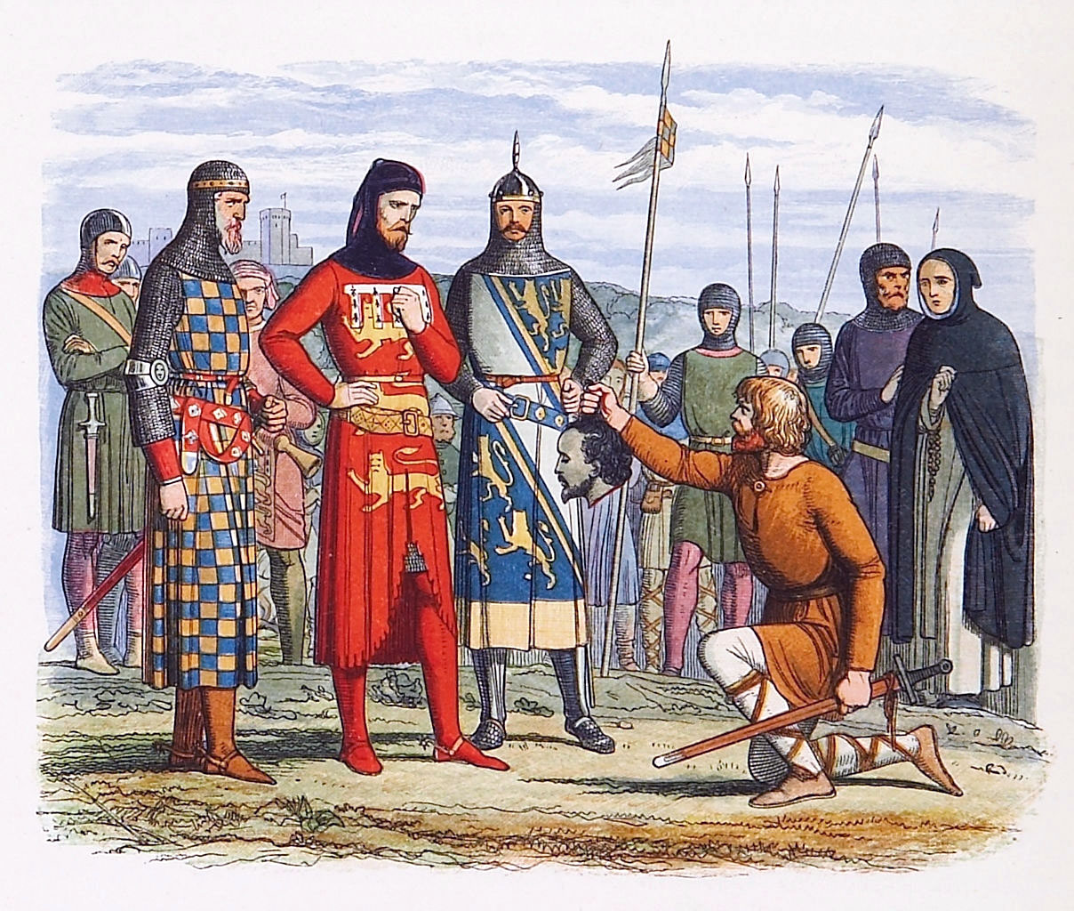 The head of Piers Gaveston, 1st Earl of Cornwall, is delivered to Thomas, 2nd Earl of Lancaster; Humphrey de Bohun, 4th Earl of Hereford; and Edmund FitzAlan, 9th Earl of Arundel, for inspection. This was published in: Doyle, James William Edmund (1864) "Edward II" in A Chronicle of England: B.C. 55 – A.D. 1485, London: Longman, Green, Longman, Roberts & Green, pp. p. 280 Retrieved on 12 November 2010.